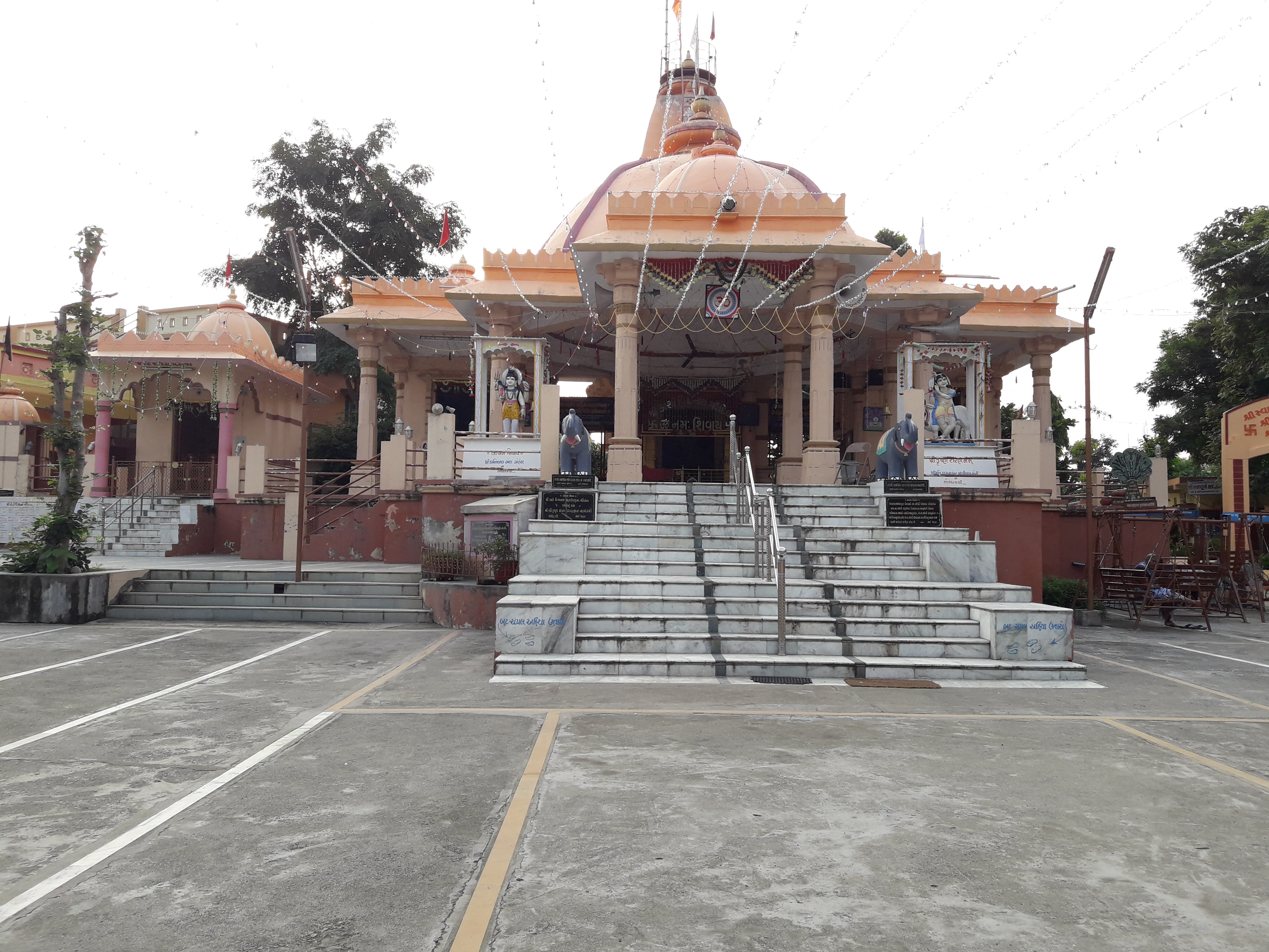 Kashi Vishwanath Mandir in Khedbrahma, Gujarat, India